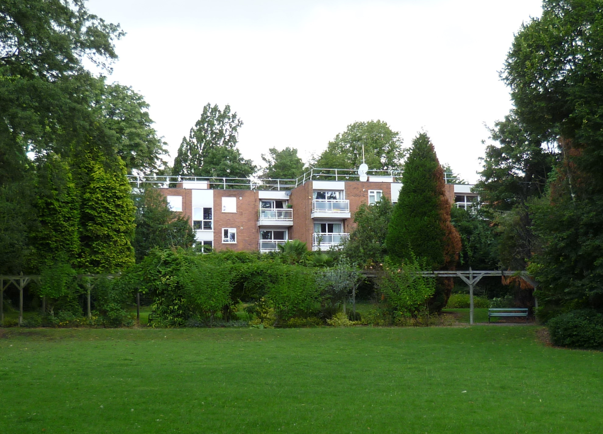 Highlands Gardens 03 (cropped)